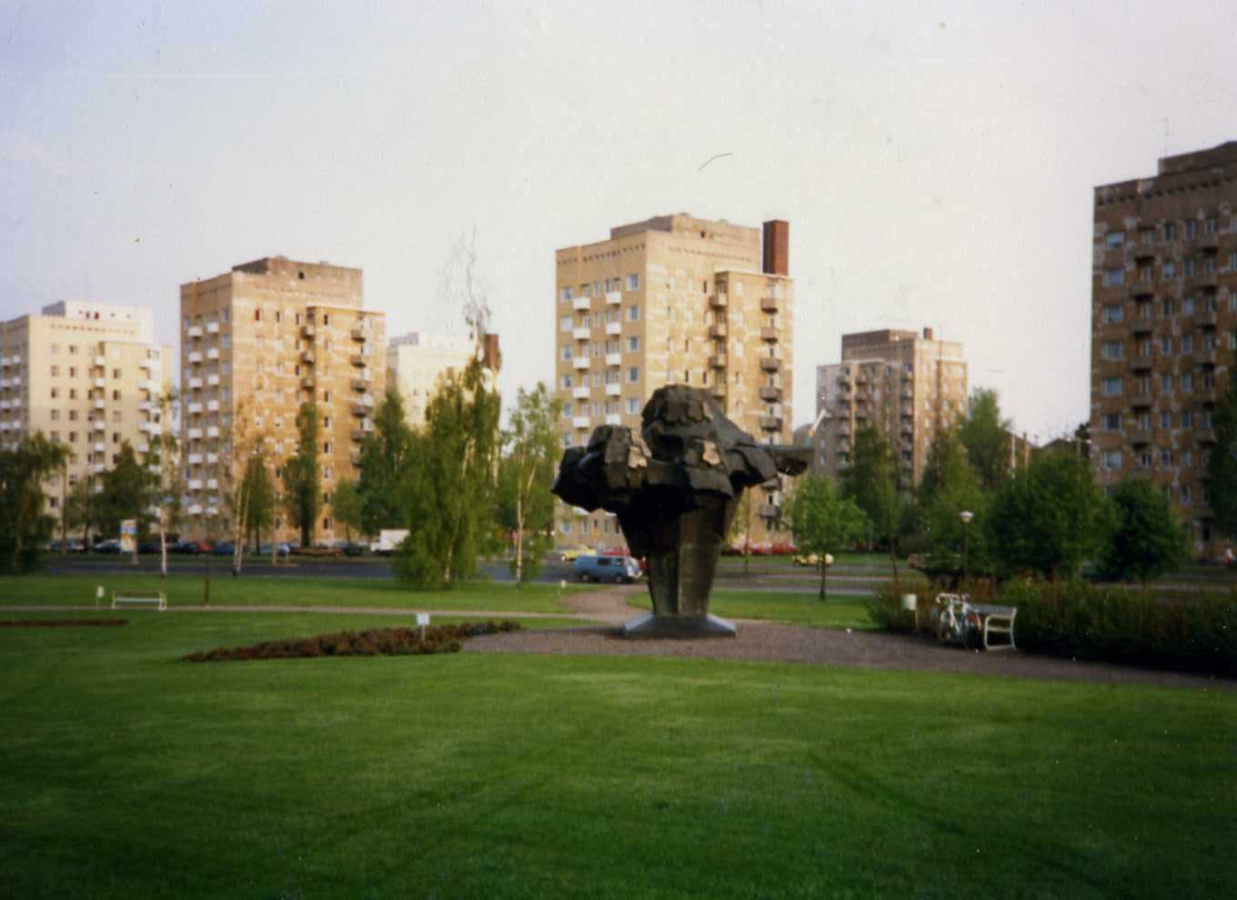 Tampere, Finland, in 1987 as seen from the park Liisanpuisto in the Liisankallio district of the city.